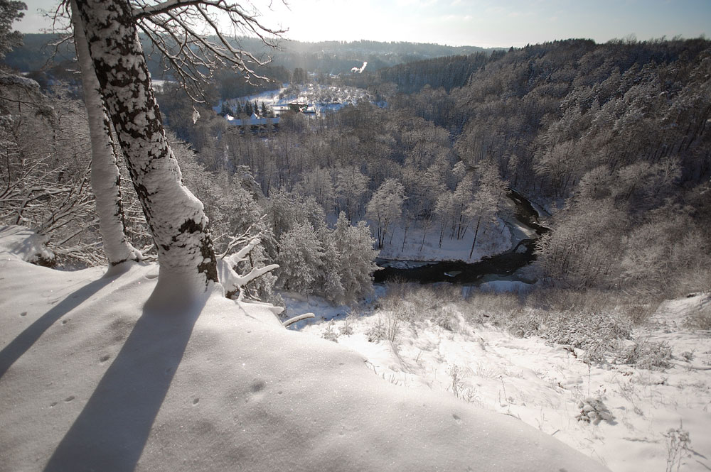 View from Puckoriu atodanga at winter, Vilnius, Lithuania